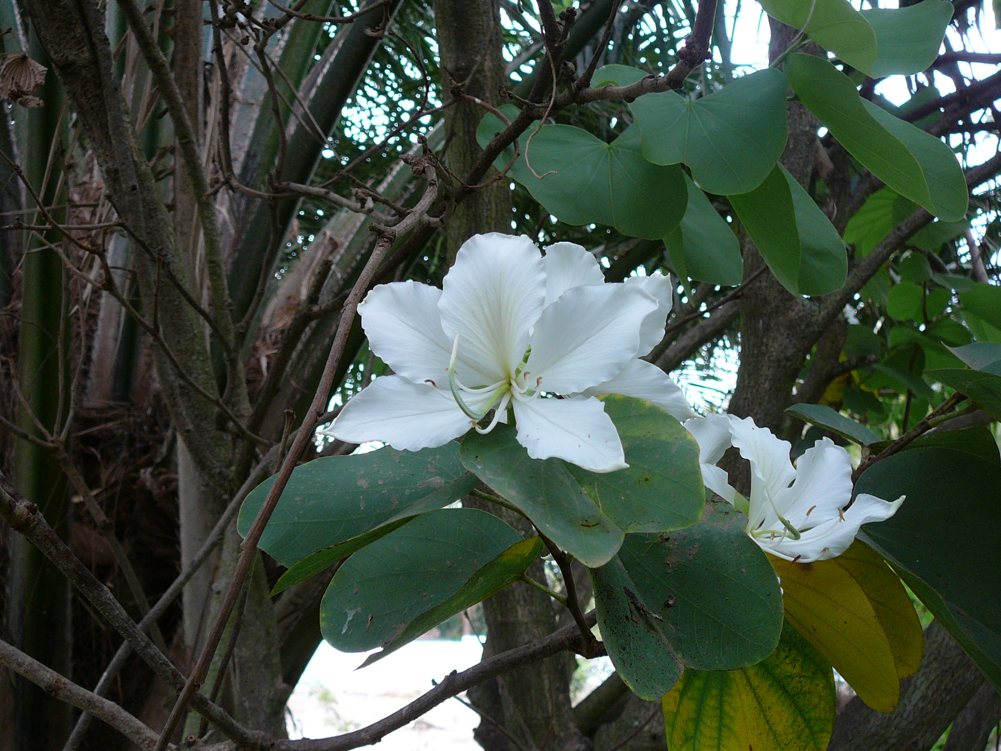 Orchidtree